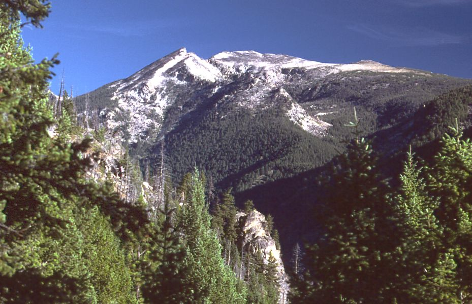 Trapper Peak of the Bitterroot Mountains — in the Bitterroot National Forest, western Montana. Looking north from Boulder Point Lookout.